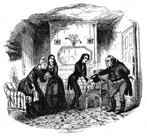 Illustration for Nicholas Nickleby by Hablot Browne